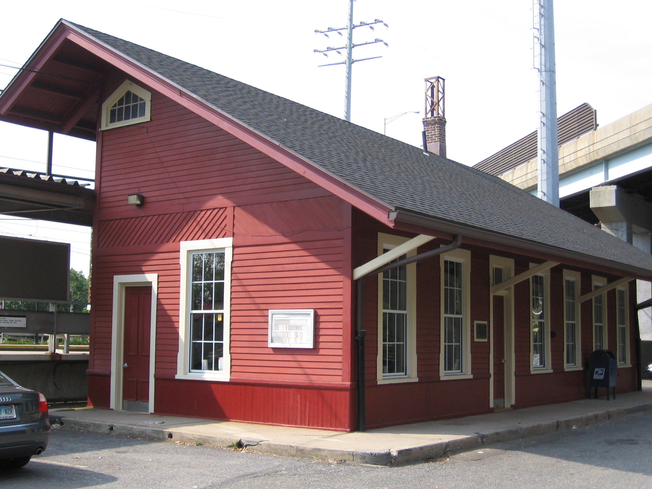 Cos Cob railroad station house, in Cos Cob section of Greenwich, Connecticut, east side